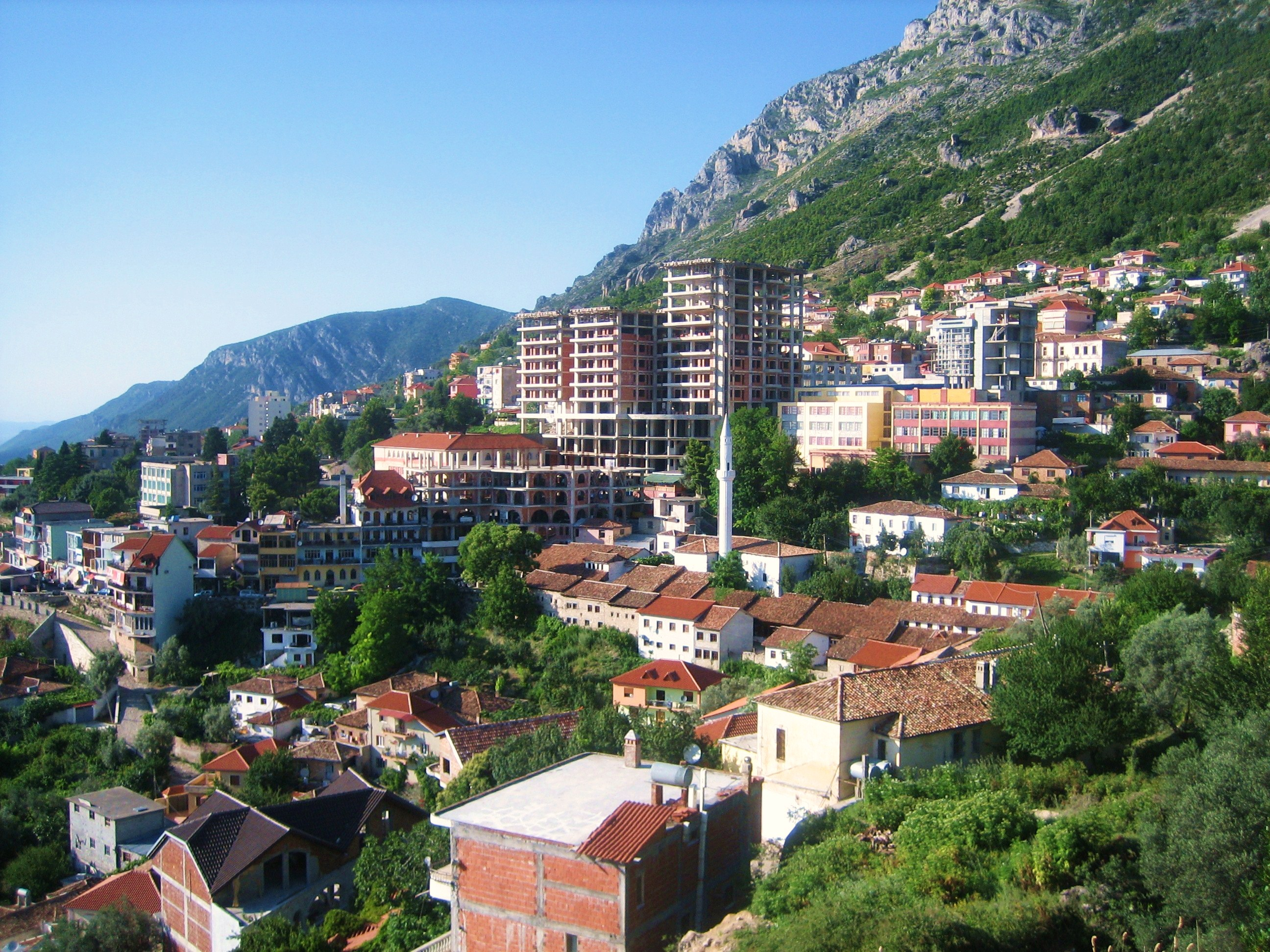 View of Krujë, Durrës County, Albania, from Krujë Castle